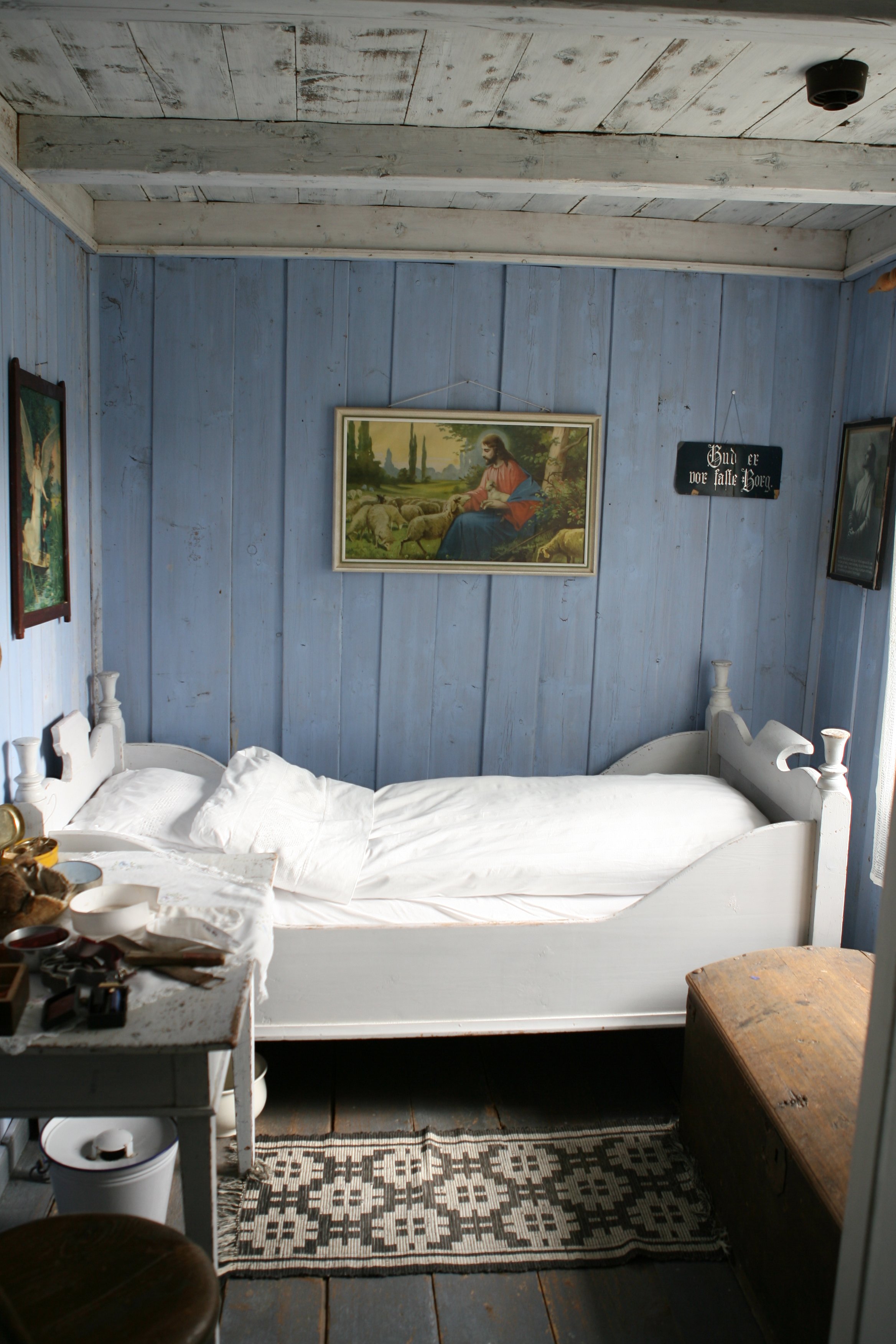 Bedroom at Fosnes Bygdemuseum, Norway. All of the decorations on the wall are religious motifs. The black sign says "Our God is our mighty fortress" (from Luther).